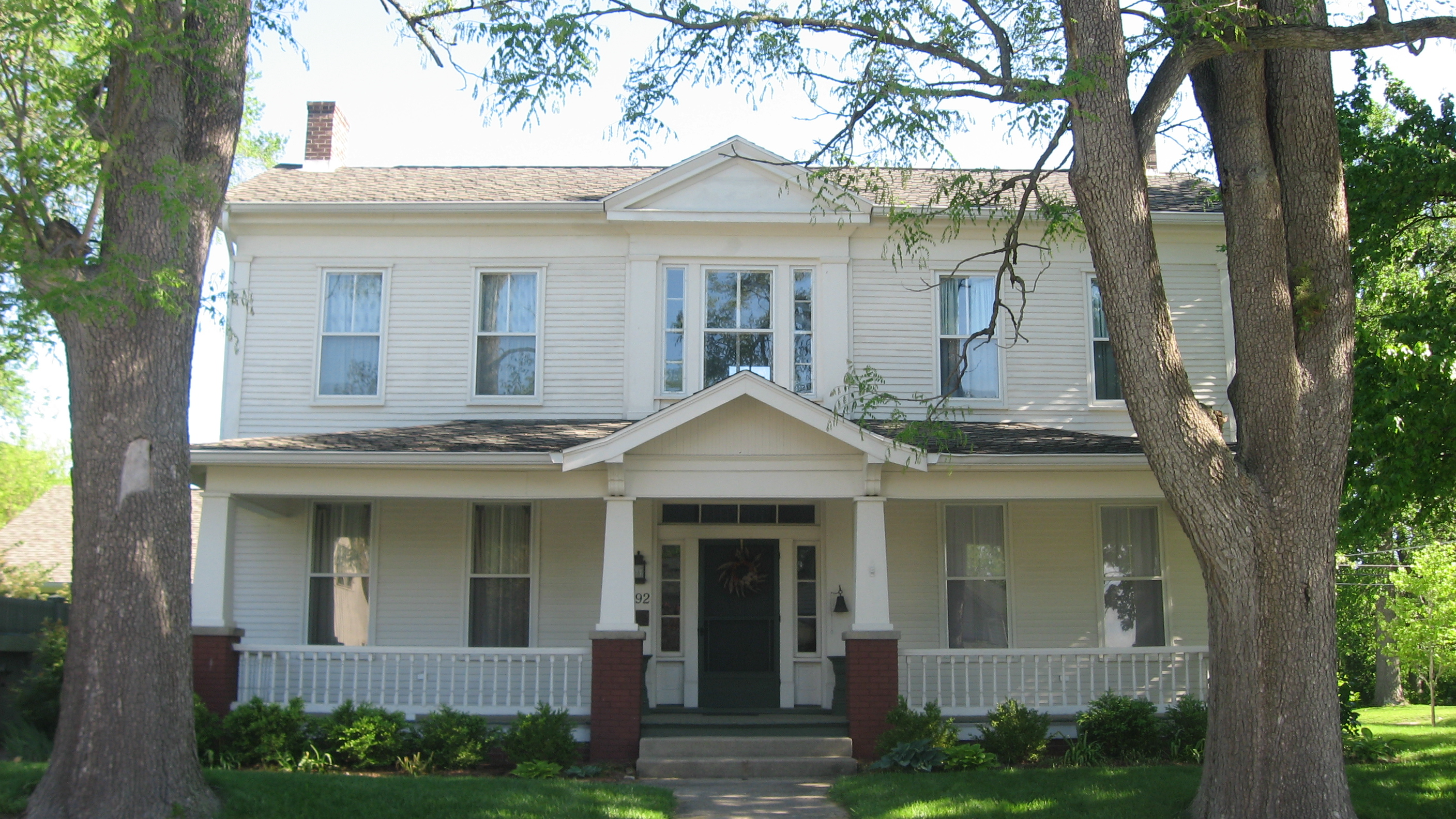 Front of the Dr. Jeremiah and Ann Jane DePew House, located at 292 E. Broadway Street in Danville, Indiana, United States. Built in 1858, it is listed on the National Register of Historic Places.